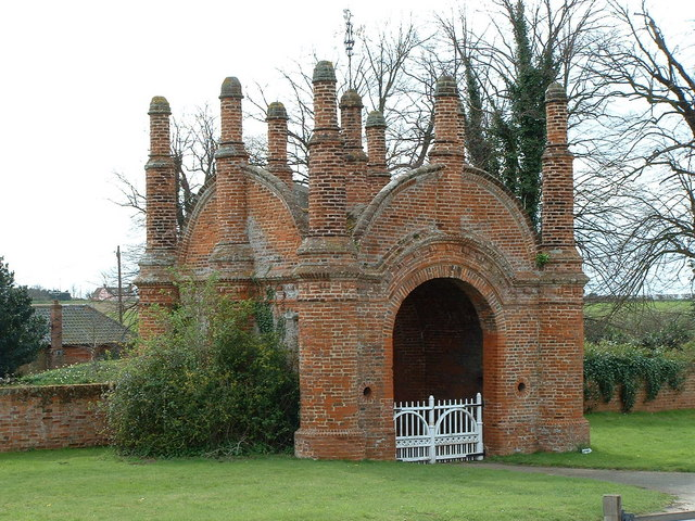 Erwarton Hall Gatehouse Erwarton Hall gatehouse near to Shotley Suffolk.